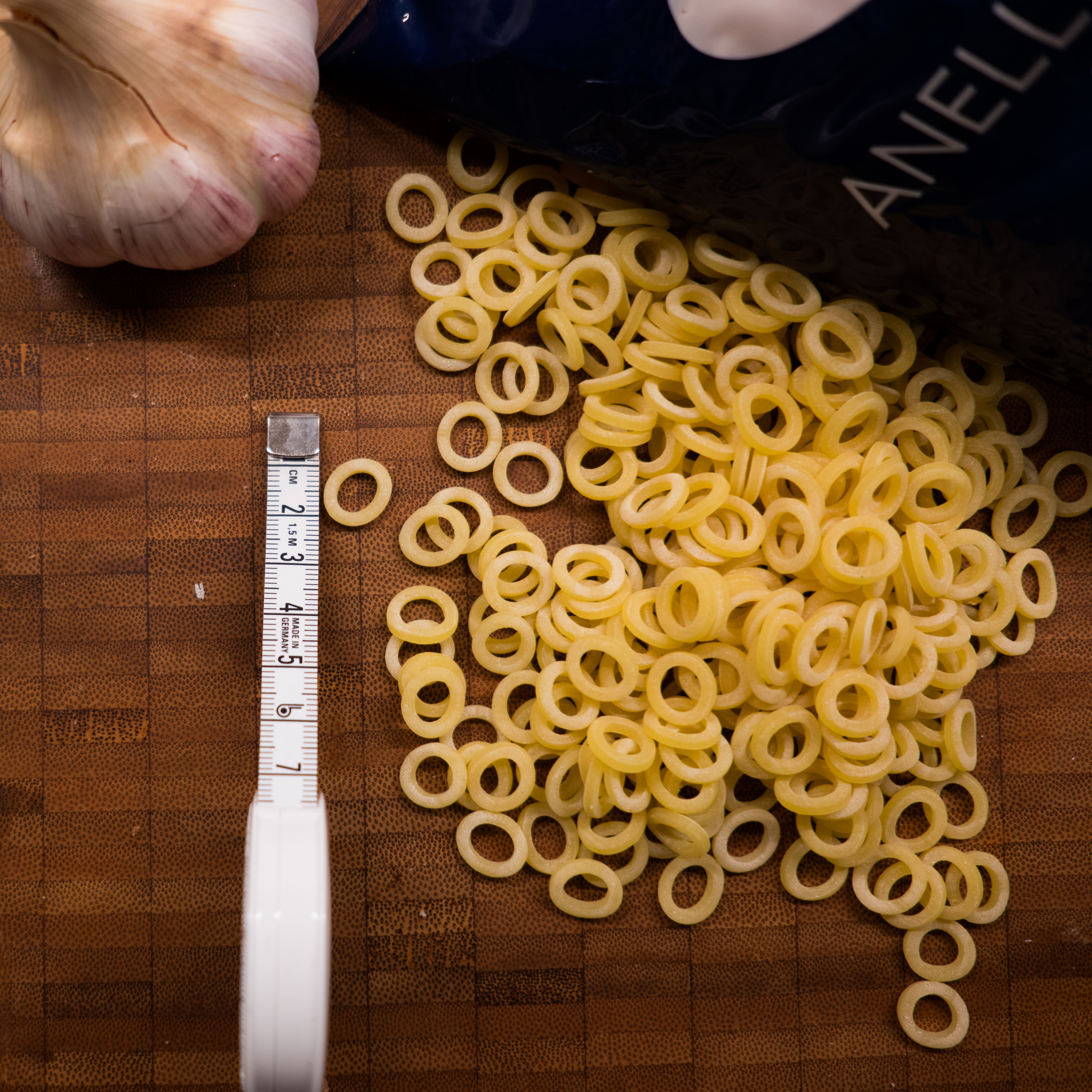 Anelli. ring shaped pasta